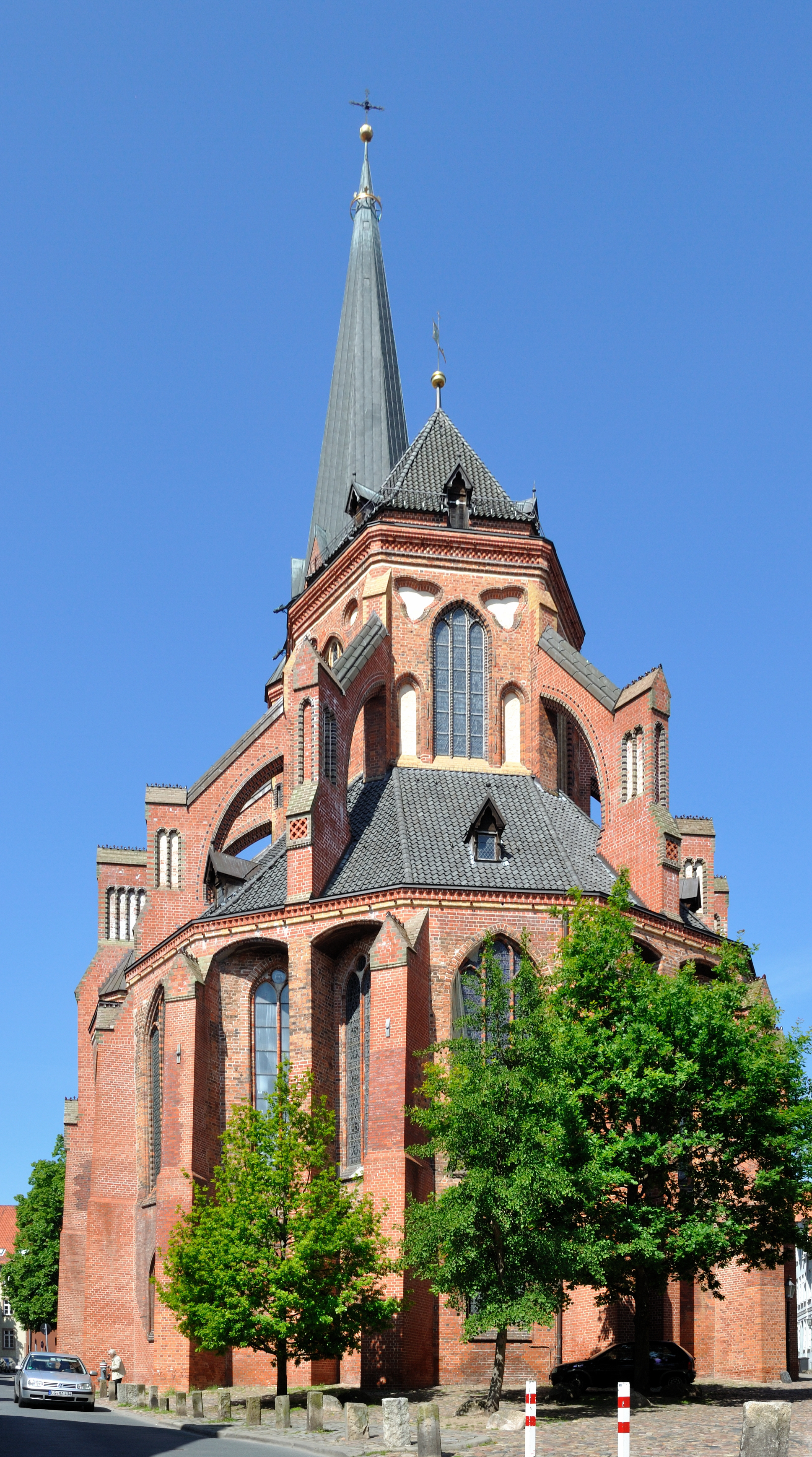 Picture taken in Lüneburg during Skillshare conference. St. Nicolai church of Lüneburg